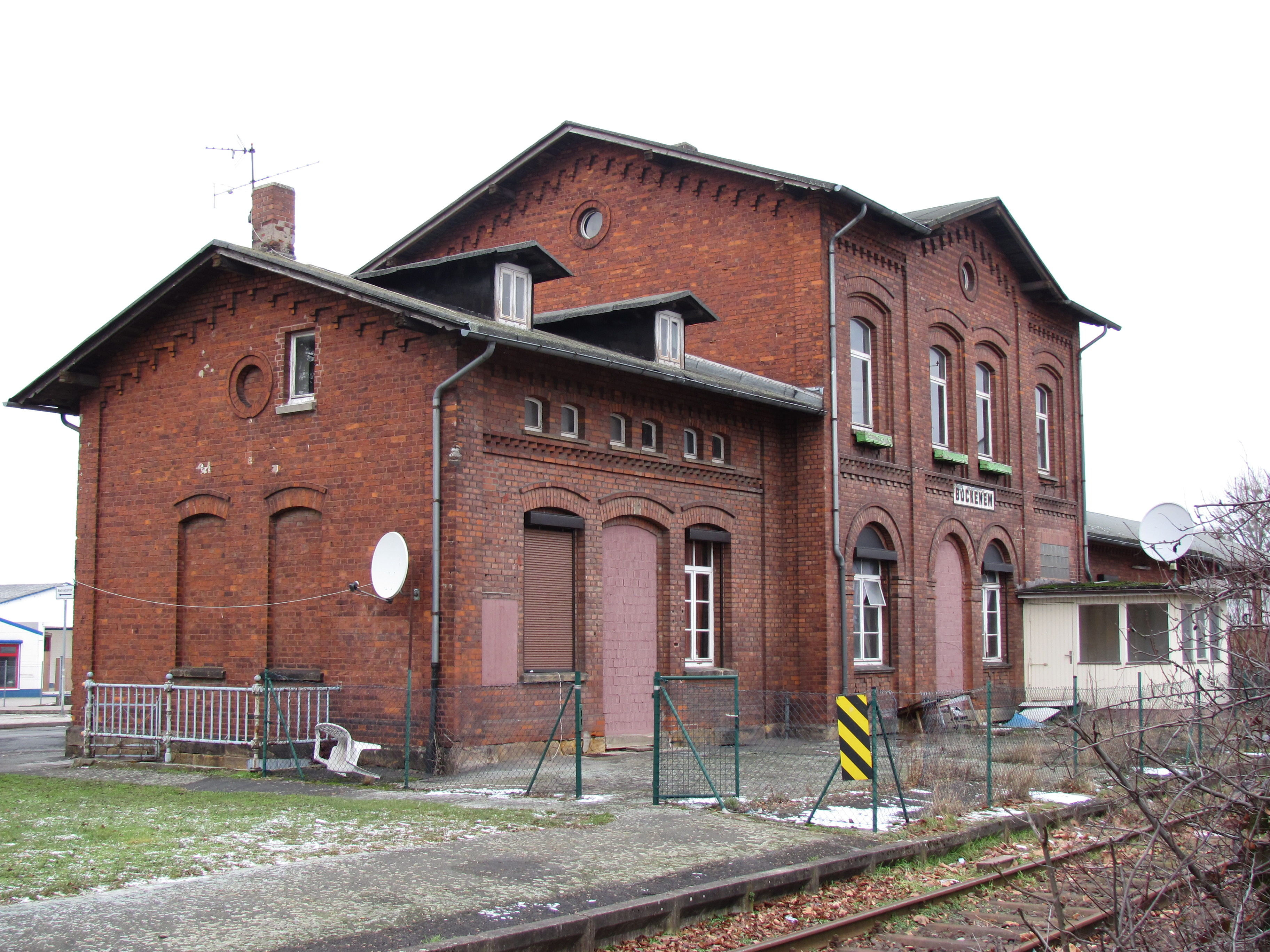 Former railway station of Bockenem, Lower Saxony, Germany.